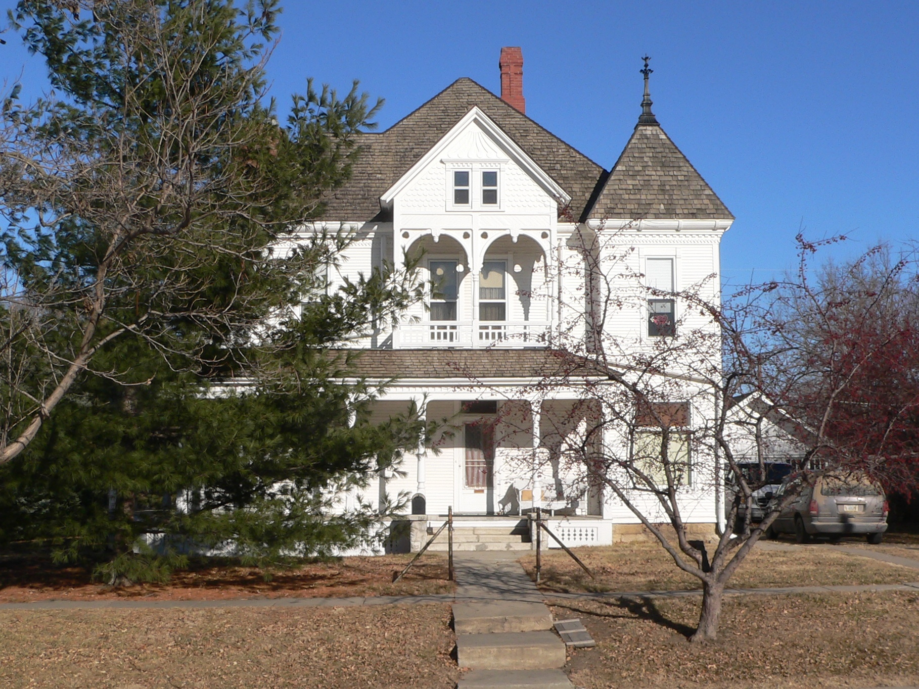 James A. Beattie house, located at 6706 Colby Street in Lincoln, Nebraska; seen from the south.